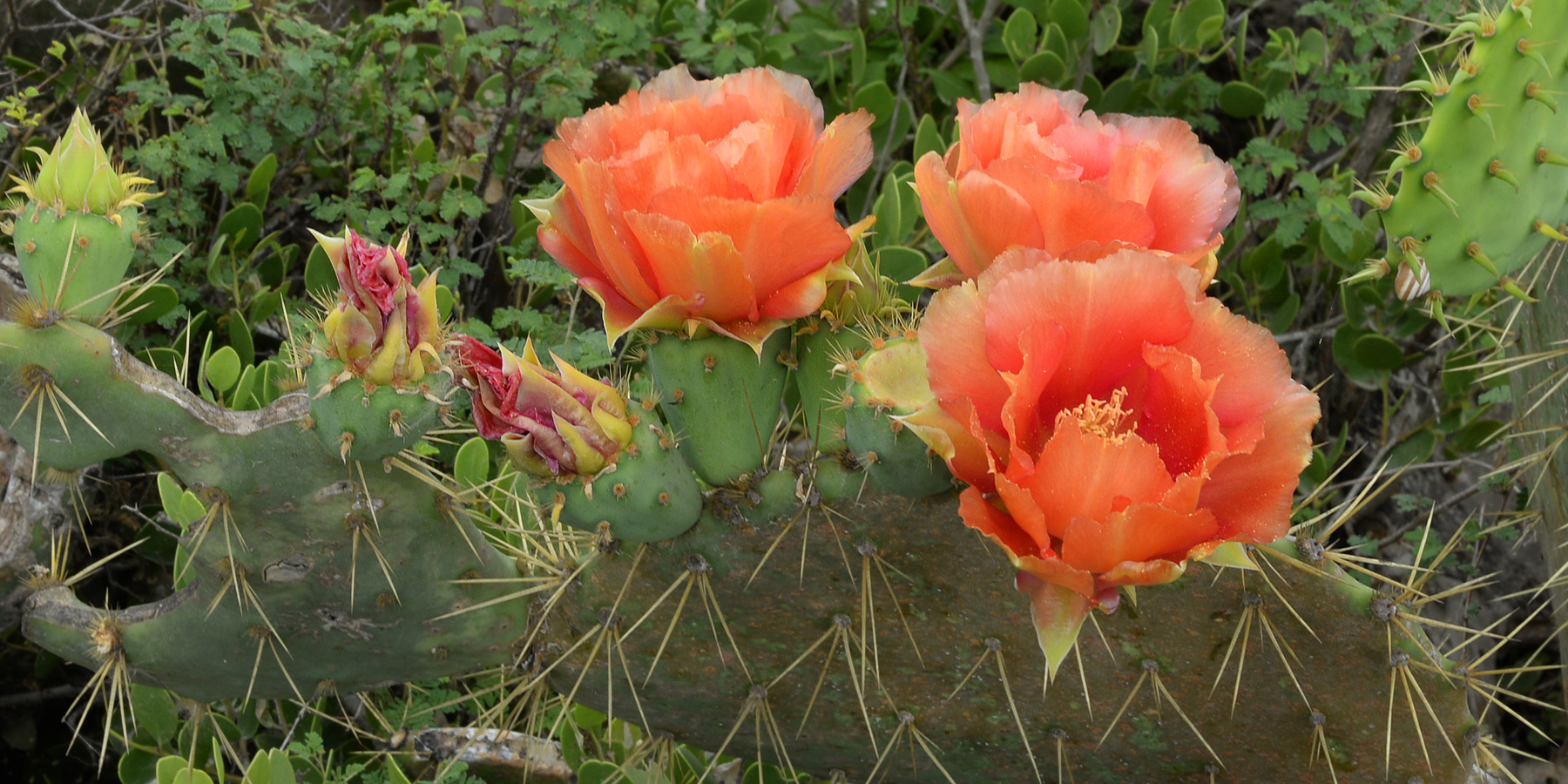 Prickly Pear Cactus (Opuntia engelmannii var. lindheimeri), State Highway 4, Cameron County, Texas, USA (25.9611°N, 97.2279°W, 1 m. elev.). Photographed on 11 April 2016 by William L. Farr.